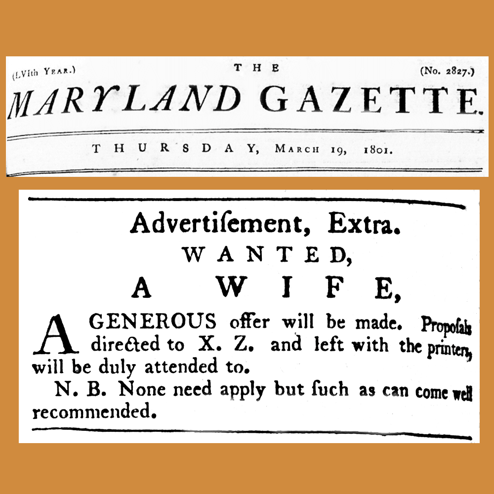 "Wanted: A Wife" advertisement in an 1801 newspaper in Annapolis, Maryland, U.S.